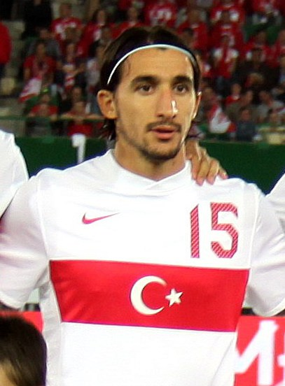 Turkey national football team against Austria 2011-09-06 (0:0)